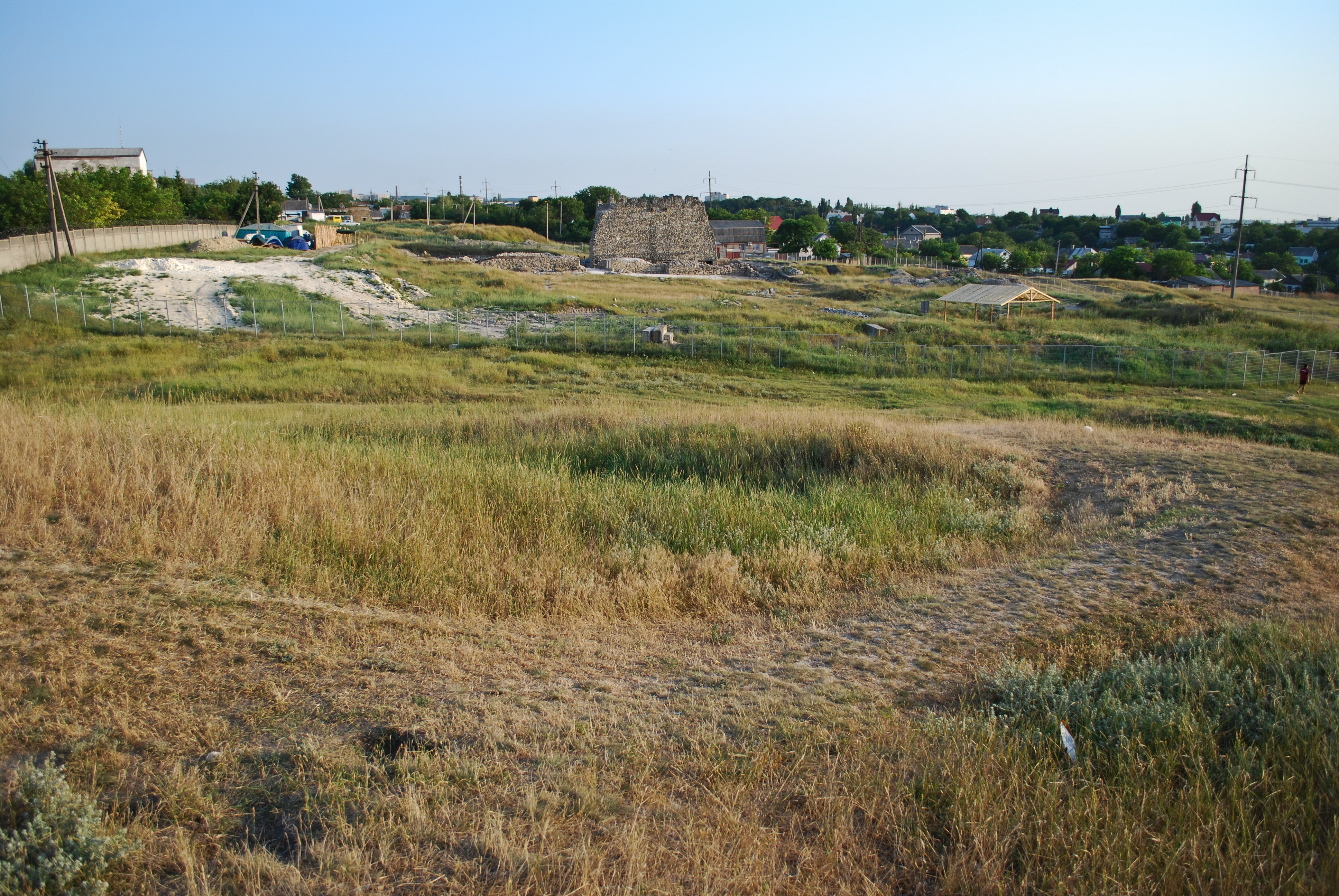 The historical reservation, created on the place of formal Scythian Neapolis (2011 year).